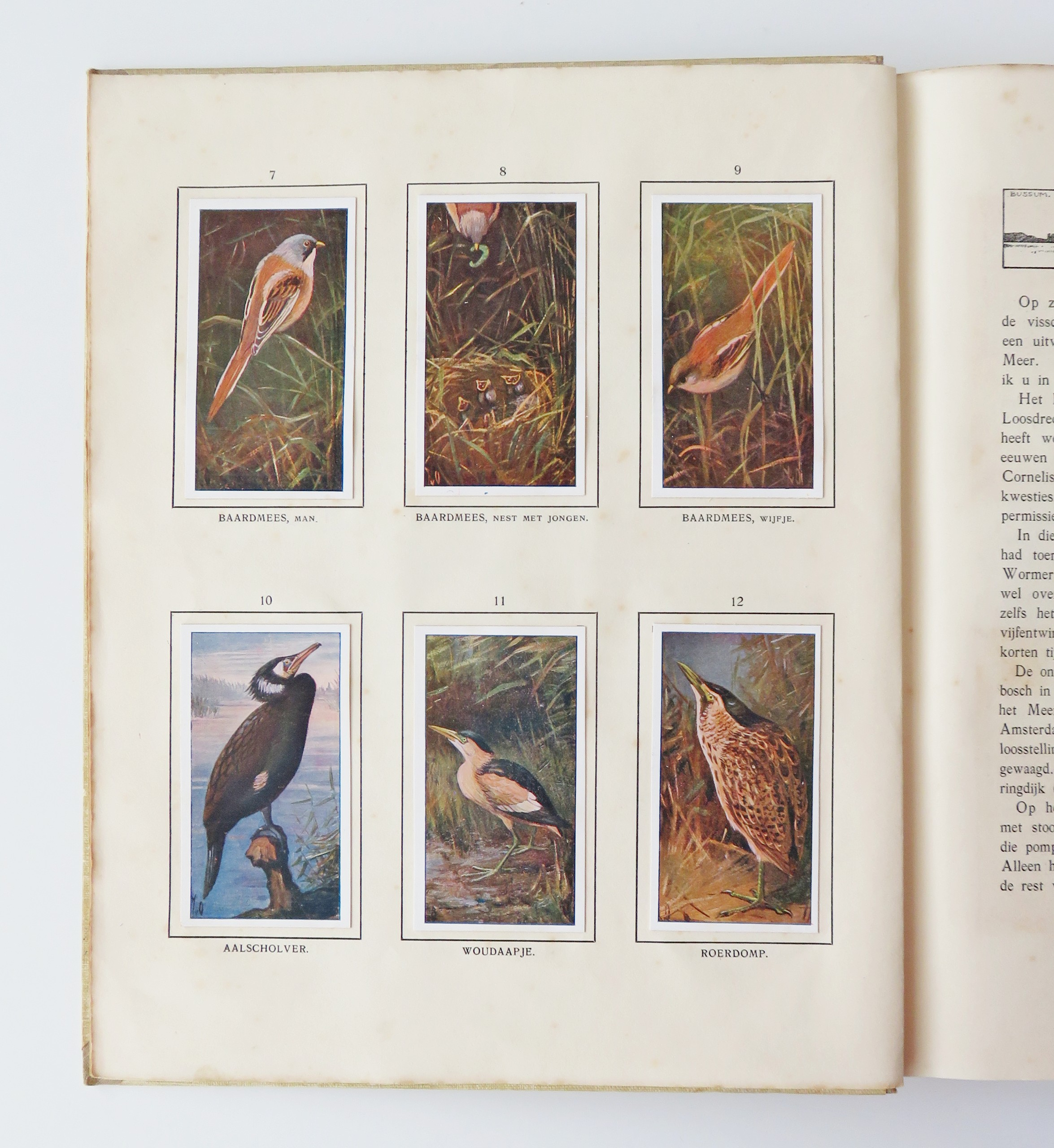 Page of the book Het Naardermeer by Jac.P.Thijsse. Picture cards painted by Jan van Oort